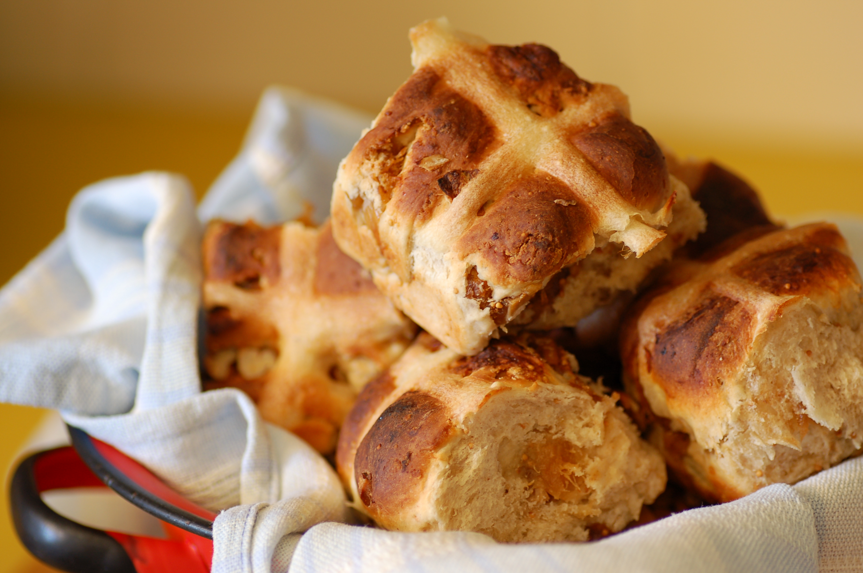 hot cross buns - fig & pecan.